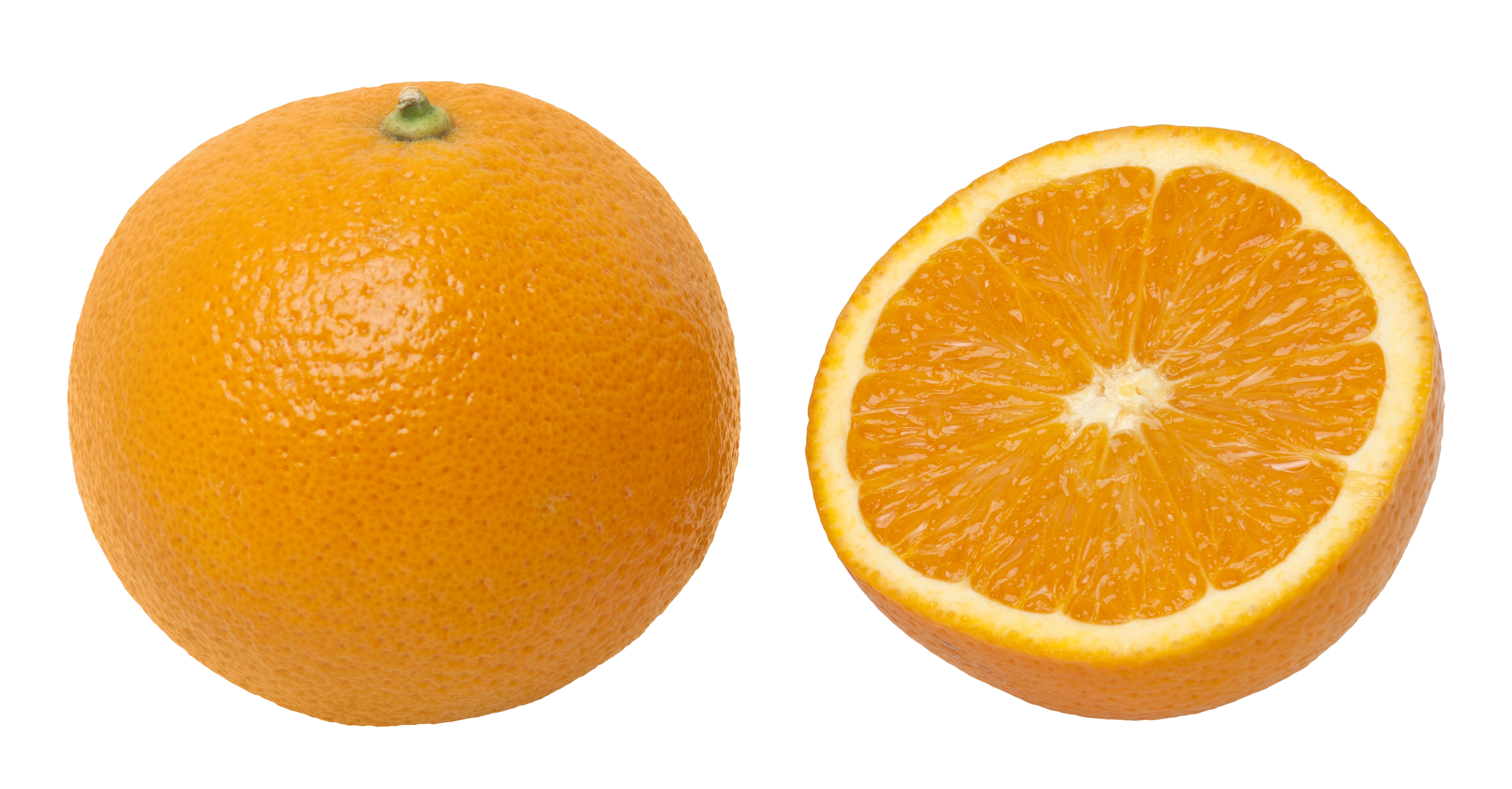 Two navel oranges, one whole and the other split in half.